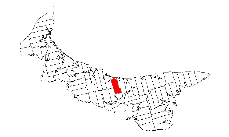 Public domain map of Prince Edward Island created by User:Plasma east with data courtesy of Geogratis, modified to show townships. Released under GFDL (self).